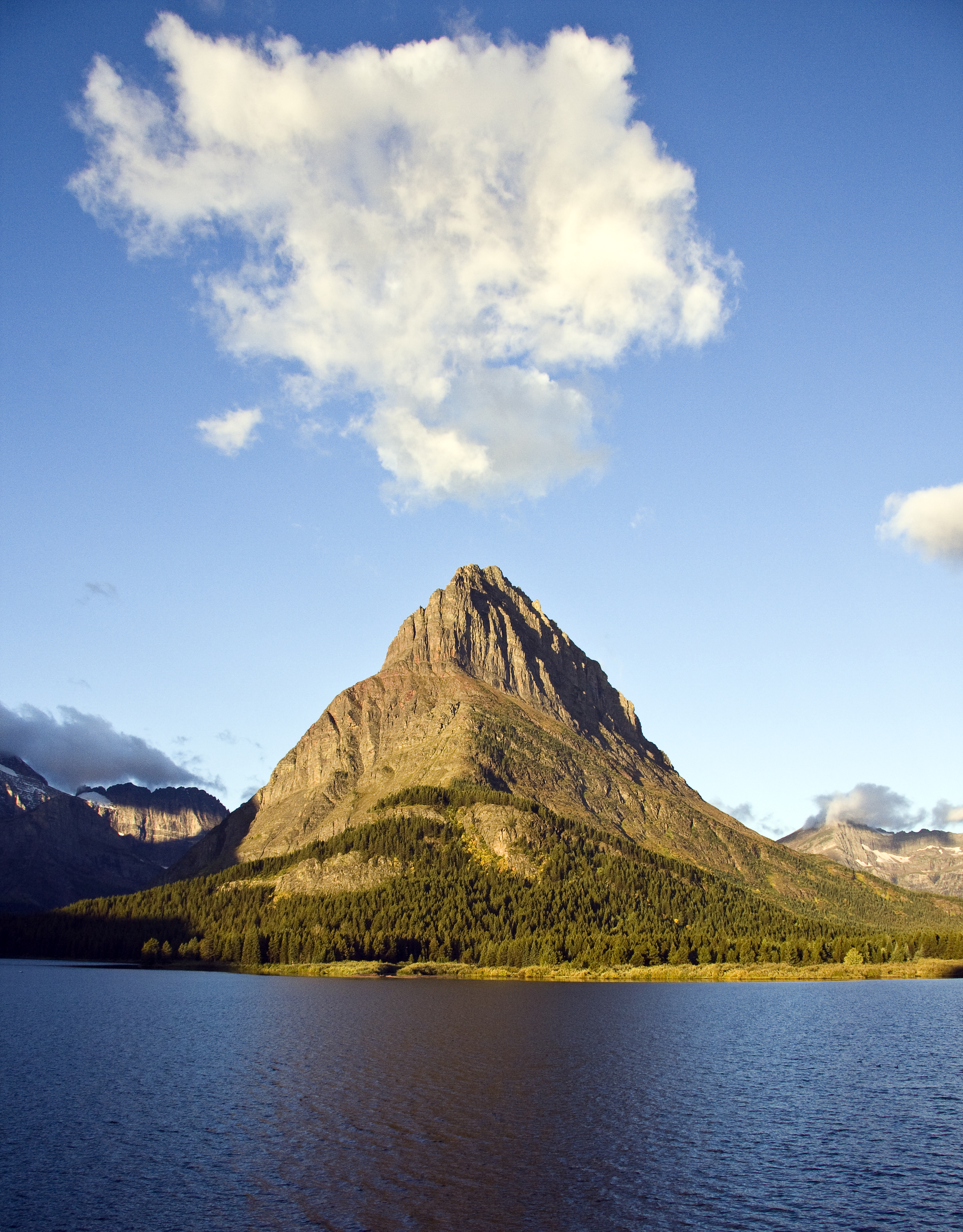 Grinnell Point on Mount Grinnell and Swiftcurrent Lake in Glacier National Park, Montana, USA.